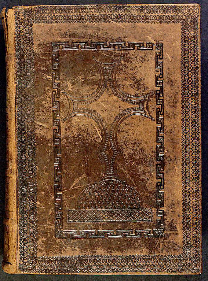 Armenian manuscript cover, Mashtots, 9th century. Italy, St. Ghazar, Mekhitarians old manuscripts library, Ms. 457